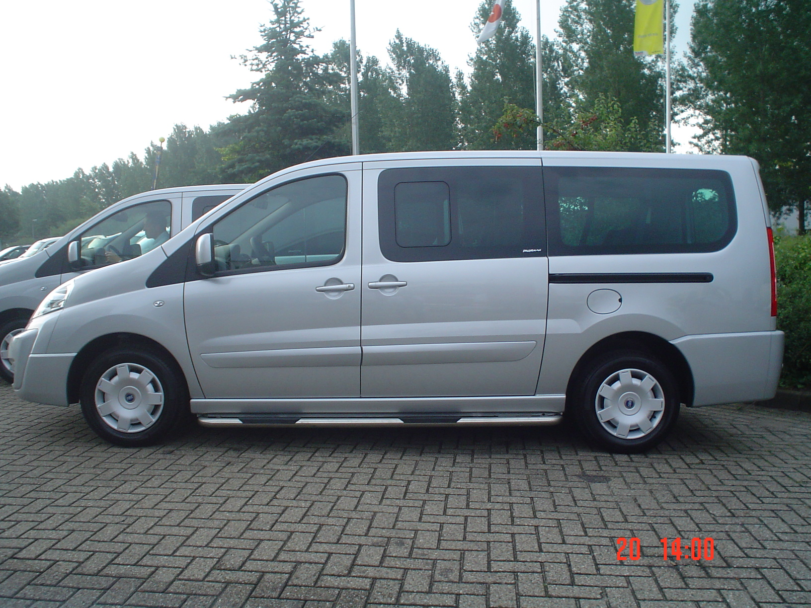 Fiat Scudo Taxi